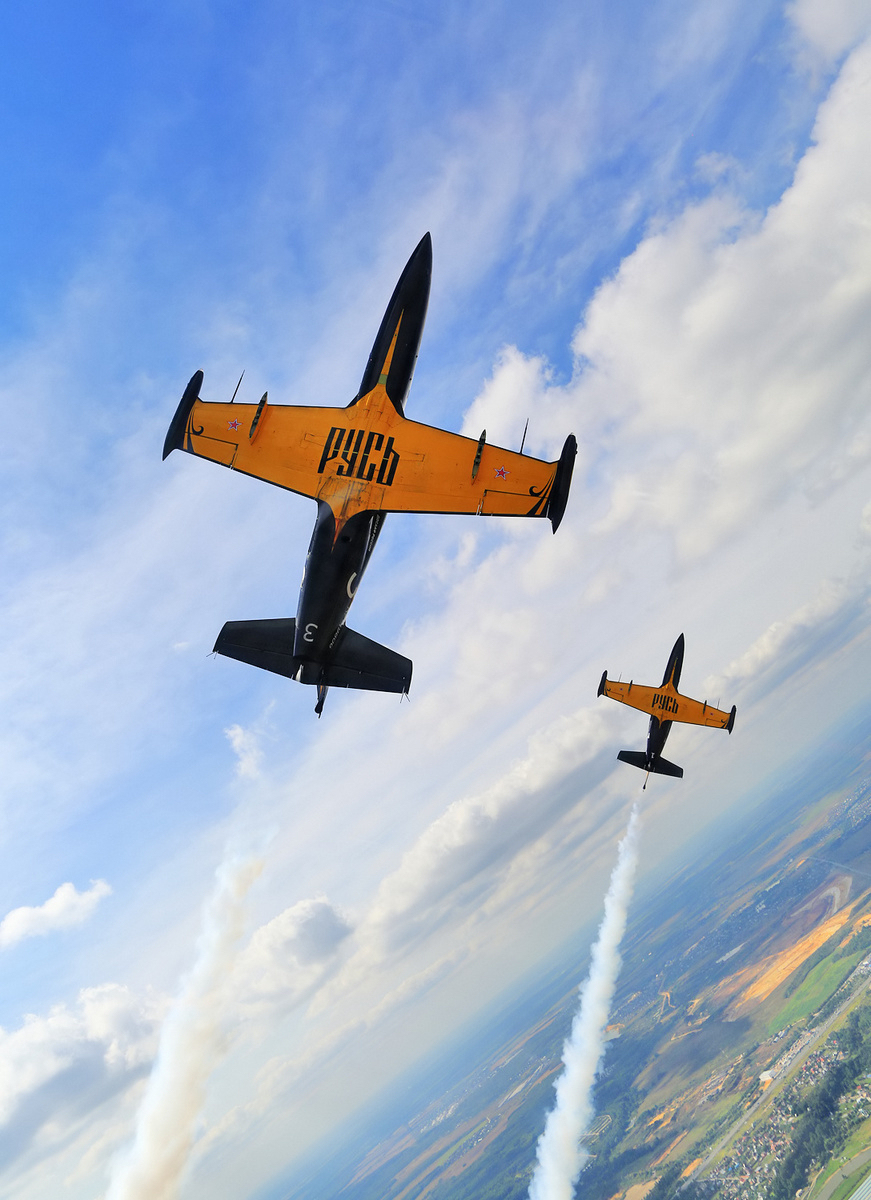 Rus aerobatic Aero L-39s demonstration at 2015 MAKS